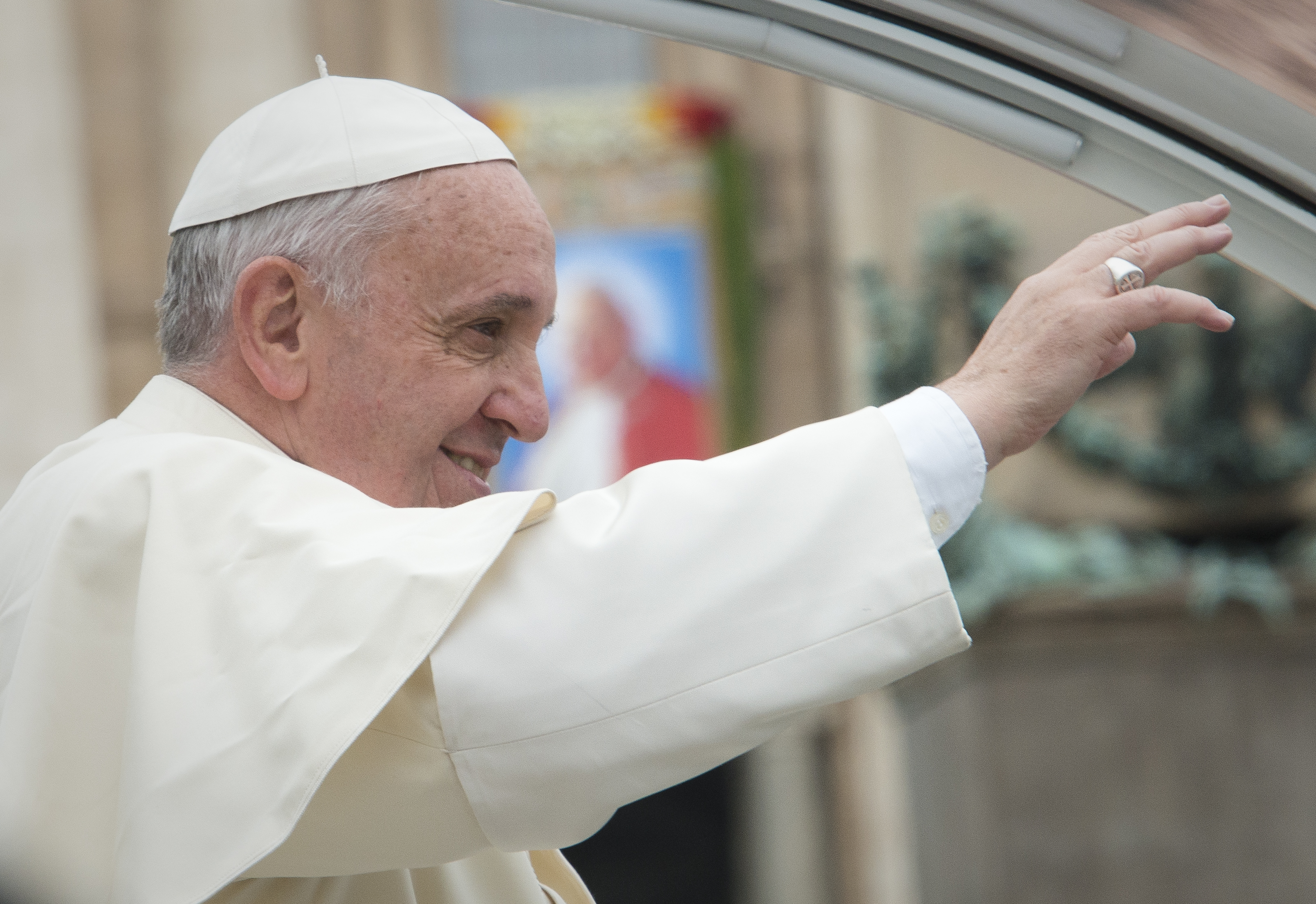 ROME,VATICAN 27 APRIL: Images taken from what will go down in history as one of the largest and most important days in current history. The Canonization of Blessed Pope John XXIII and Blessed Pope John Paul II. Two beloved Popes from the 20th Century.